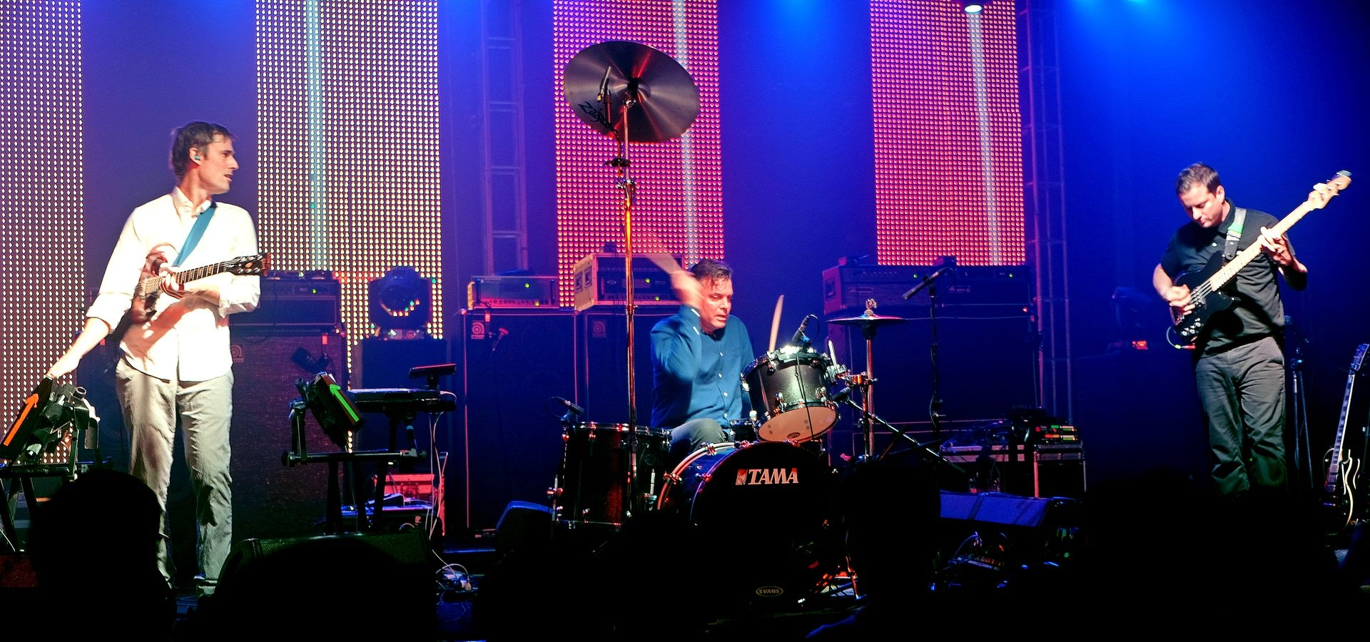 Battles at Live House BKK, Bangkok, Thailand. Left to right: Ian Williams, John Stanier, Dave Konopka.